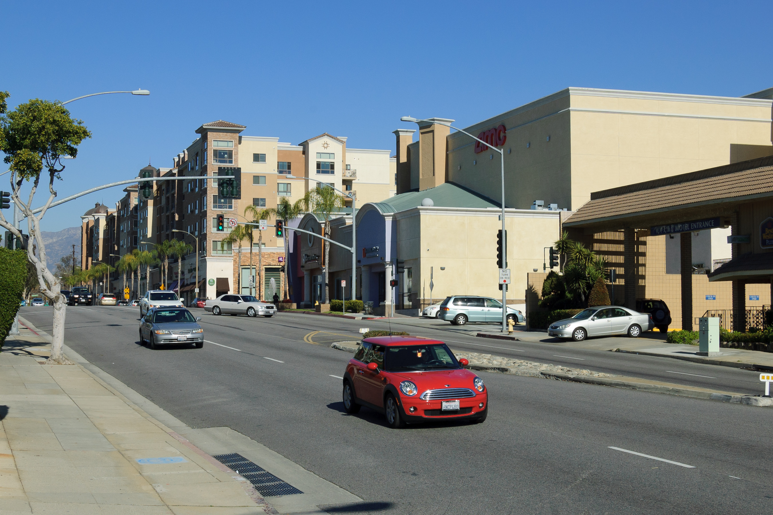 Atlantic Blvd. in Monterey Park, California.